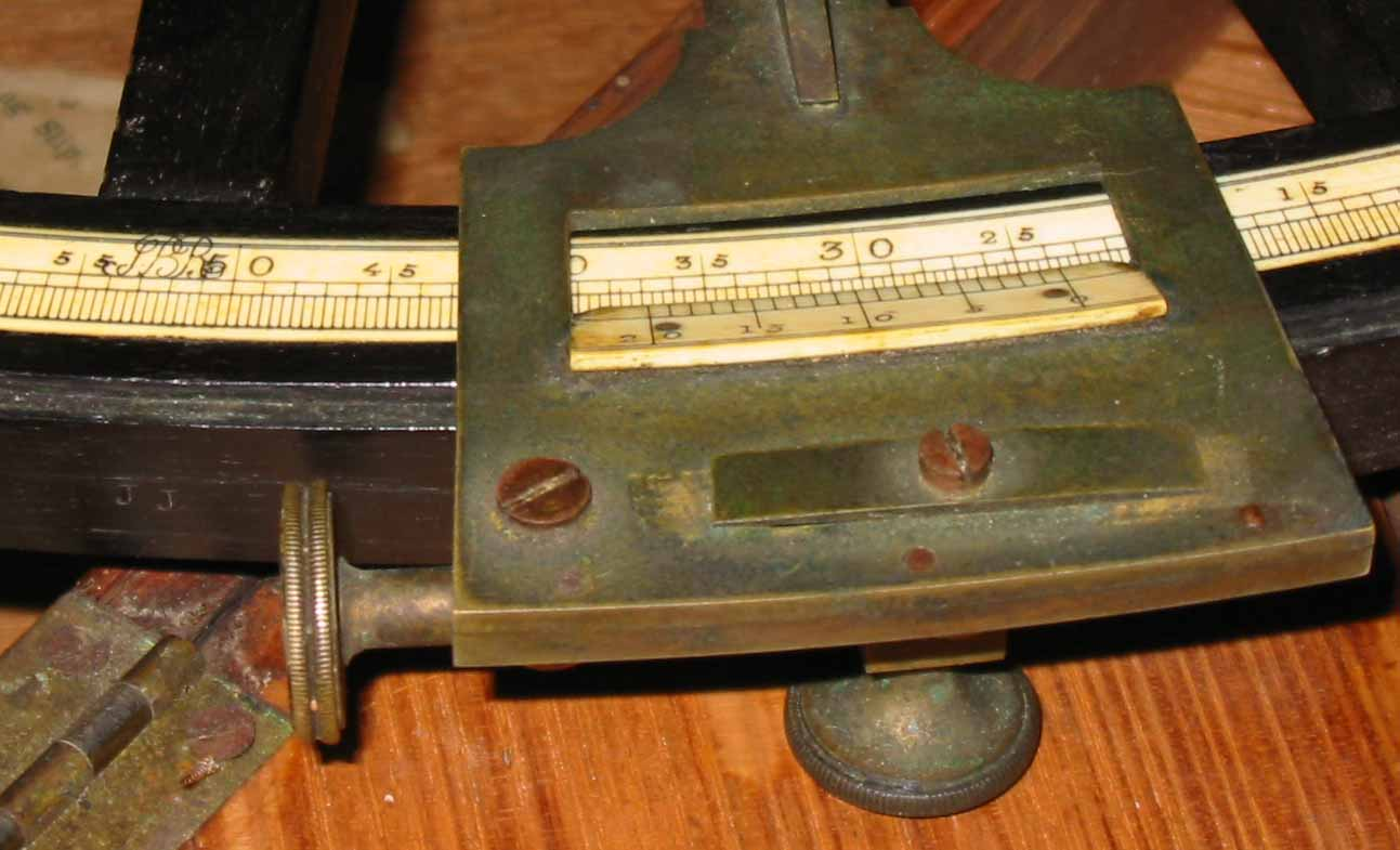 Photo of octant details. Graduated scale anf the index arm with vernier. Also visible is the SBR logo of Spencer, Browning and Rust